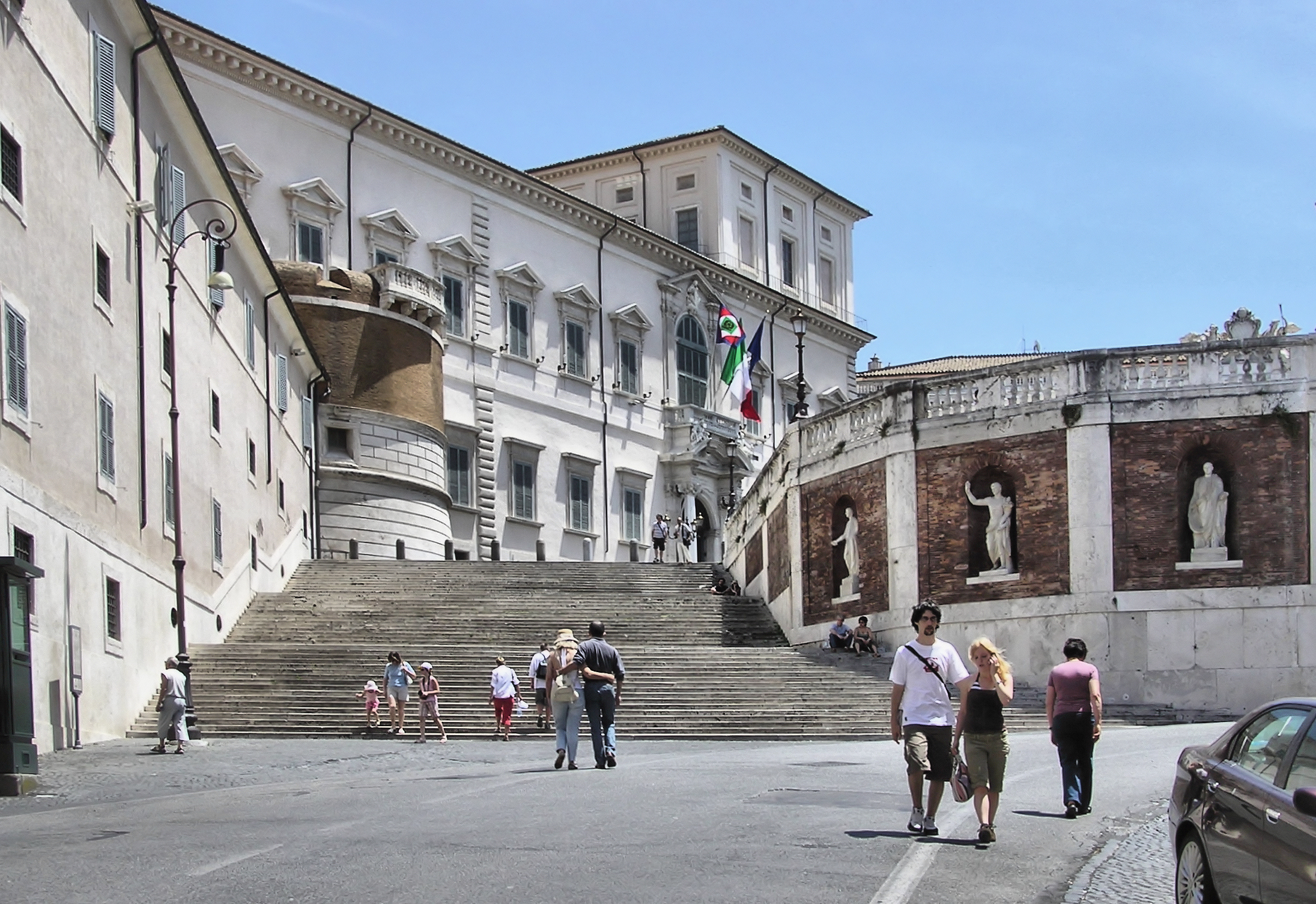 Quirinal Palace, Rome, official home of the President of the Italian Republic. Viewed from the approach from the Trevi Fountain.